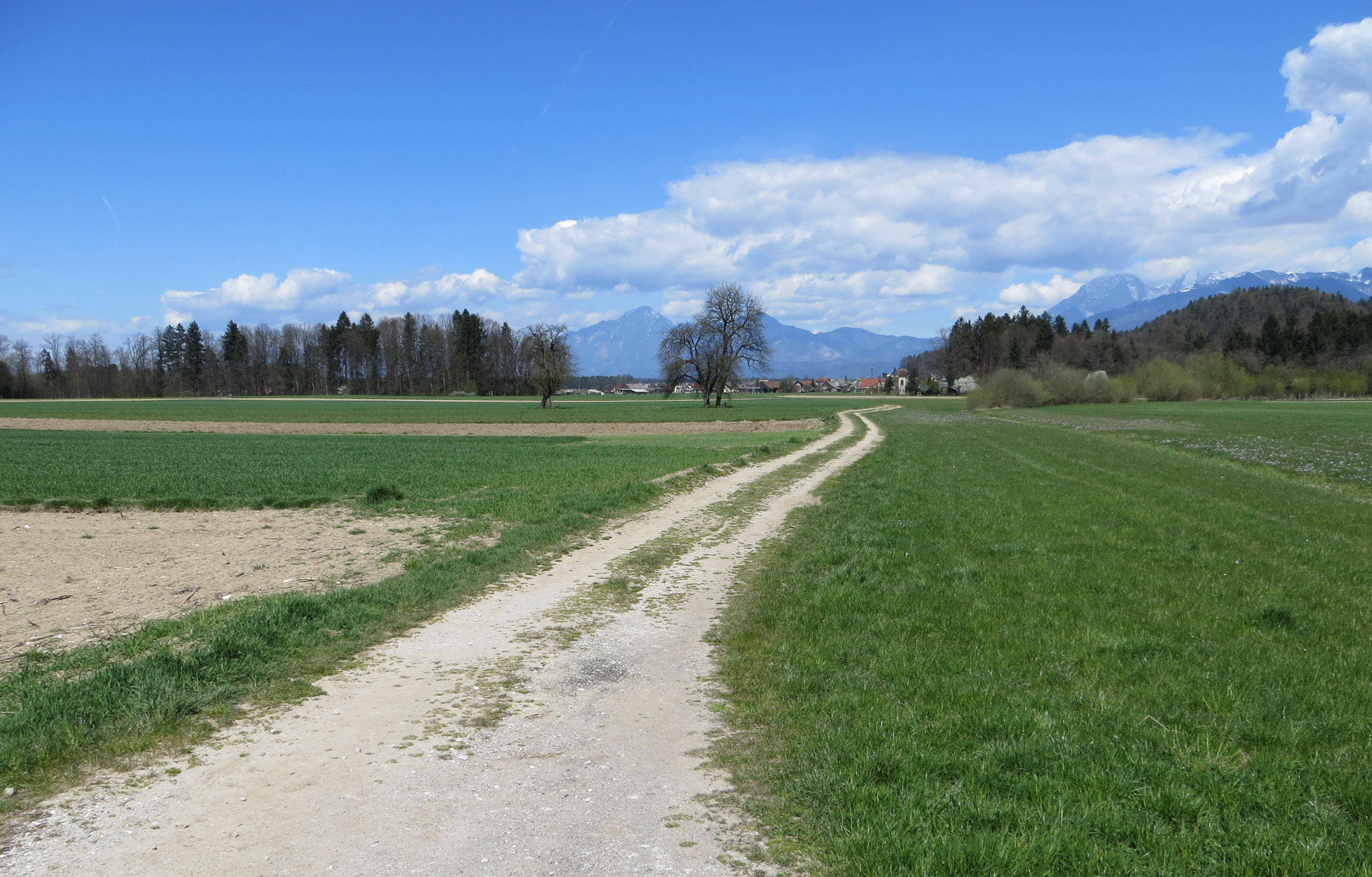 The Skaručna Basin at Selo pri Vodicah, Municipality of Vodice, Slovenia